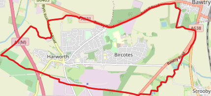 Map of the Harworth ward of Bassetlaw. This map may be incomplete, and may contain errors. Don't rely solely on it for navigation.